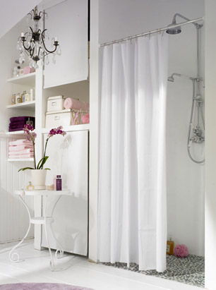 white shower curtain and accessible housing